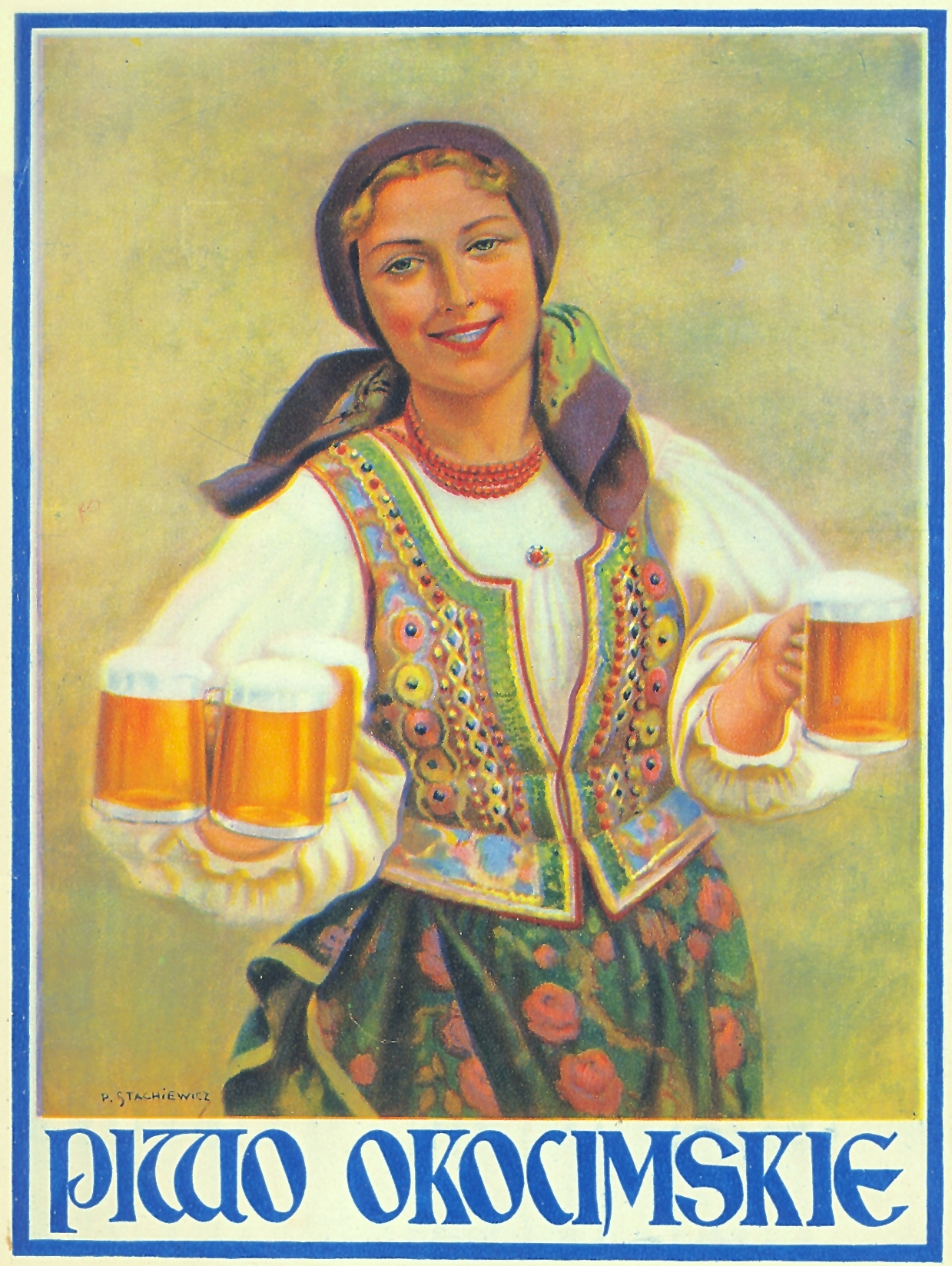 Advertising OKOCIM beer, designed by Peter Stachiewicz